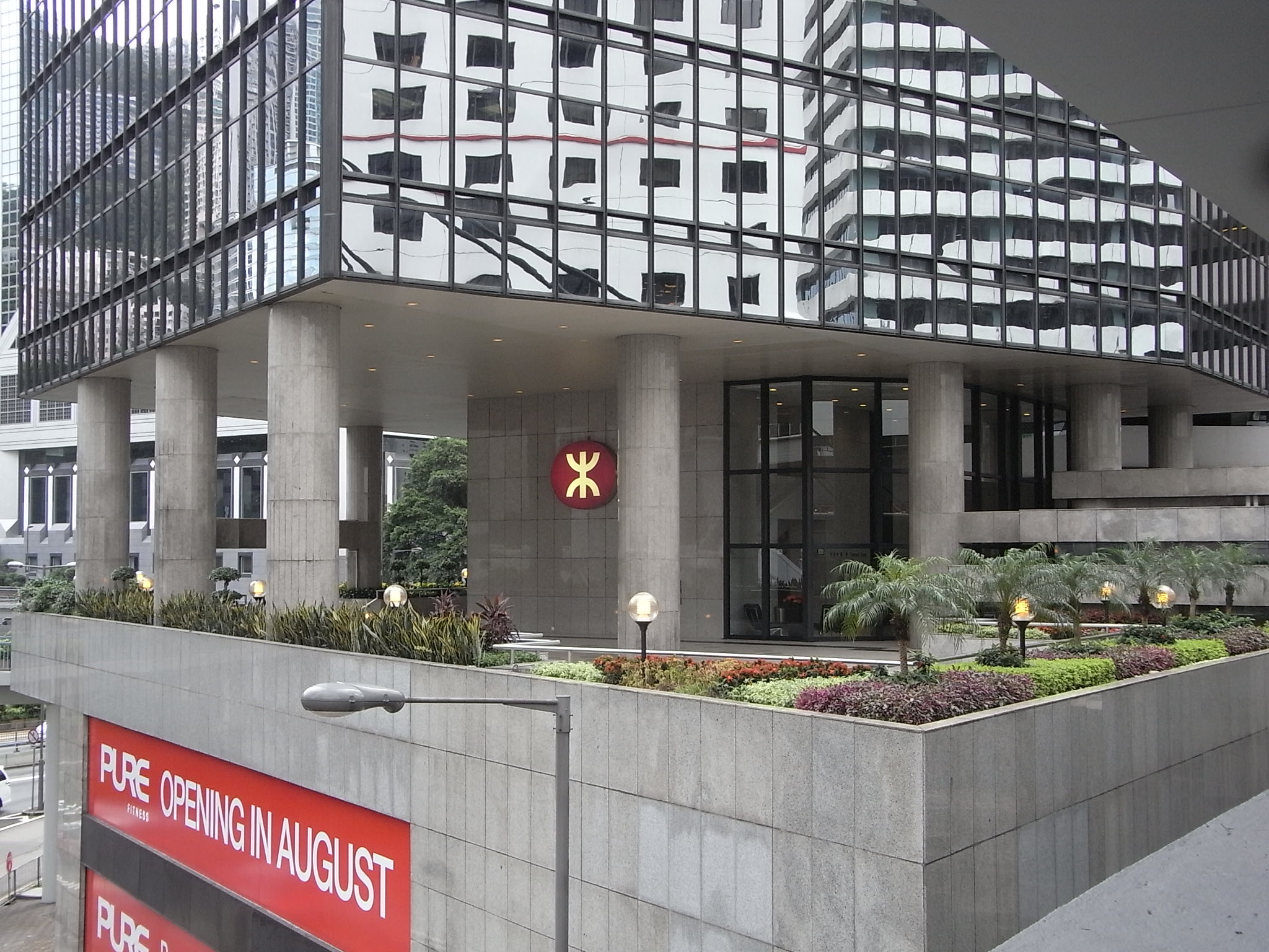 香港島金鐘